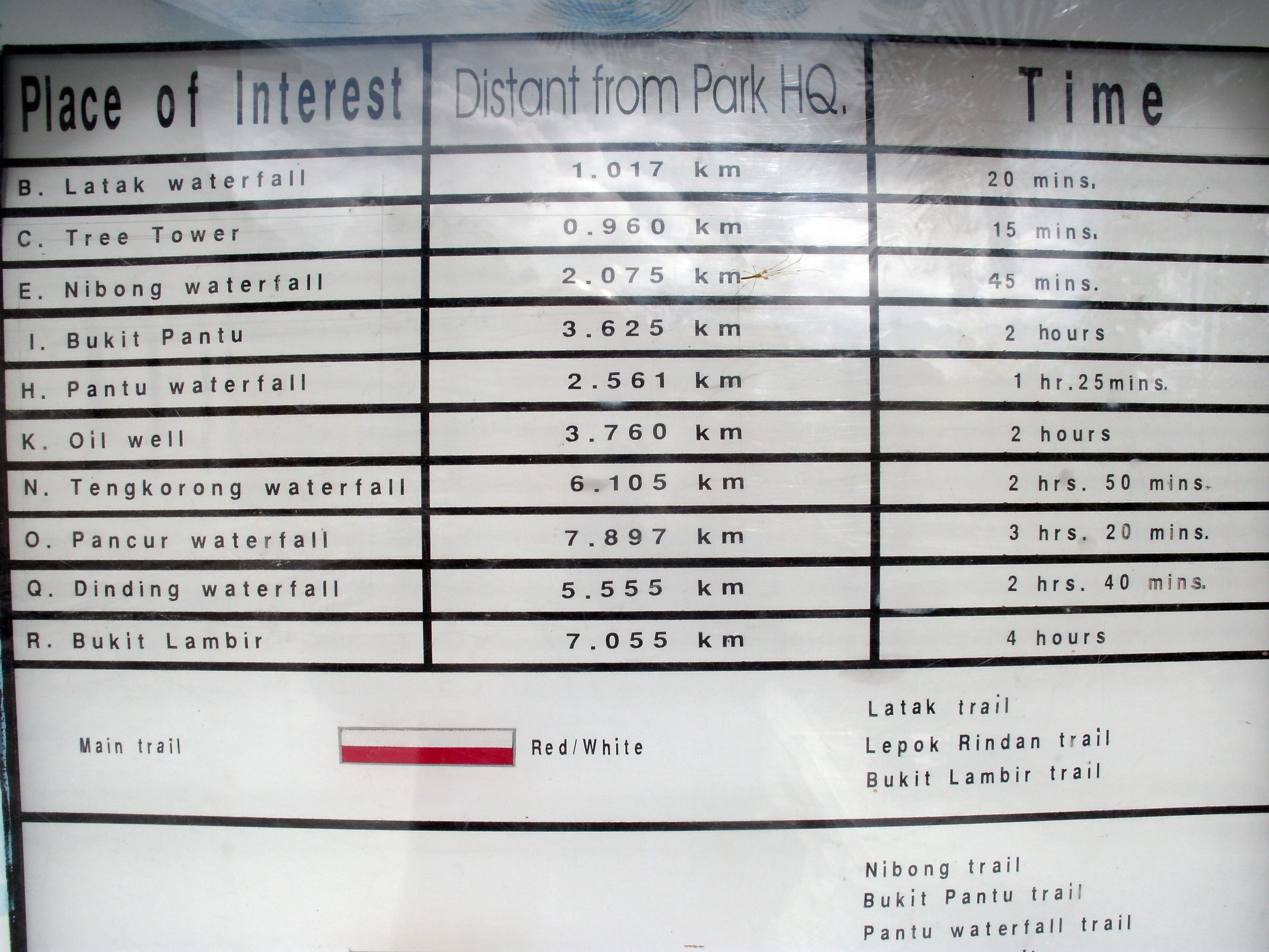 Lambir Hills National Park